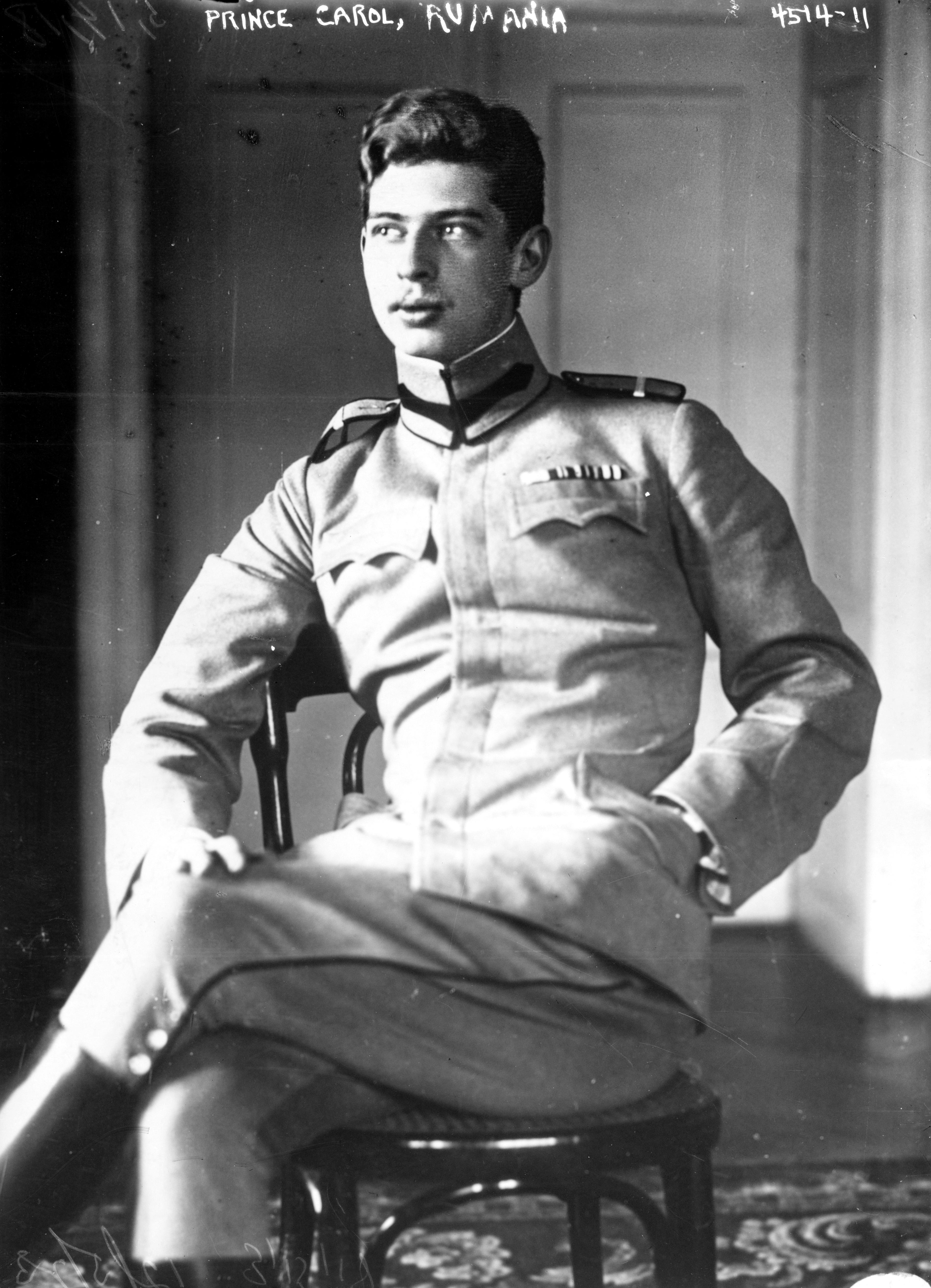 King Carol II of Romania